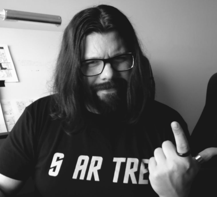 Photo of artist David Lafuente in his studio in 2019